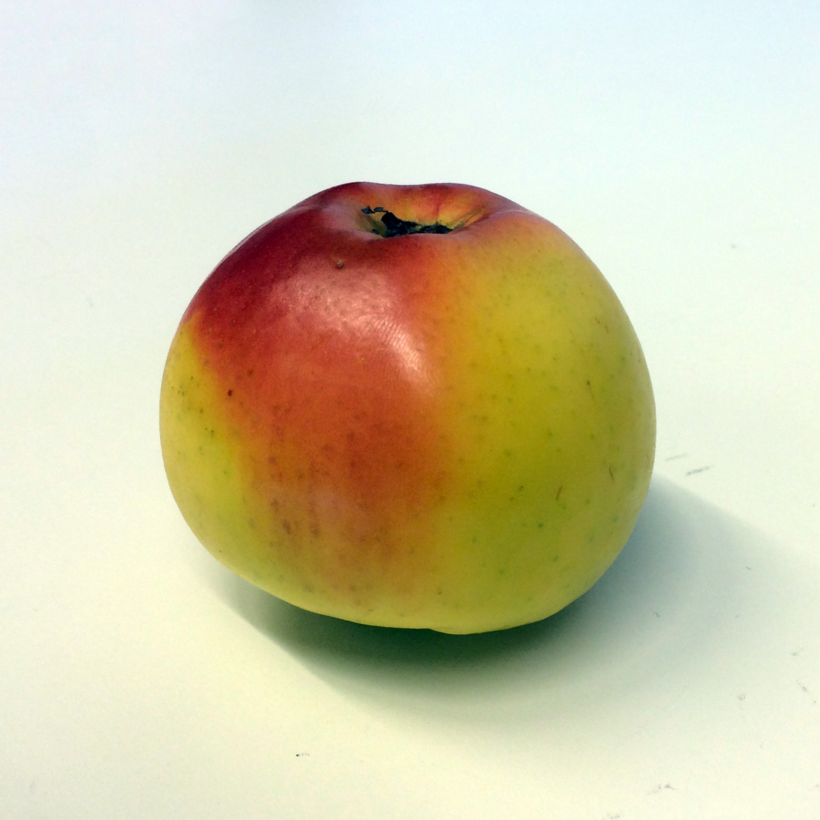 Apple of the cultivar Signe Tillisch, photographed in conjunction with the Apple Festival at Nordiska museet, Stockholm, Sweden in September 2014.